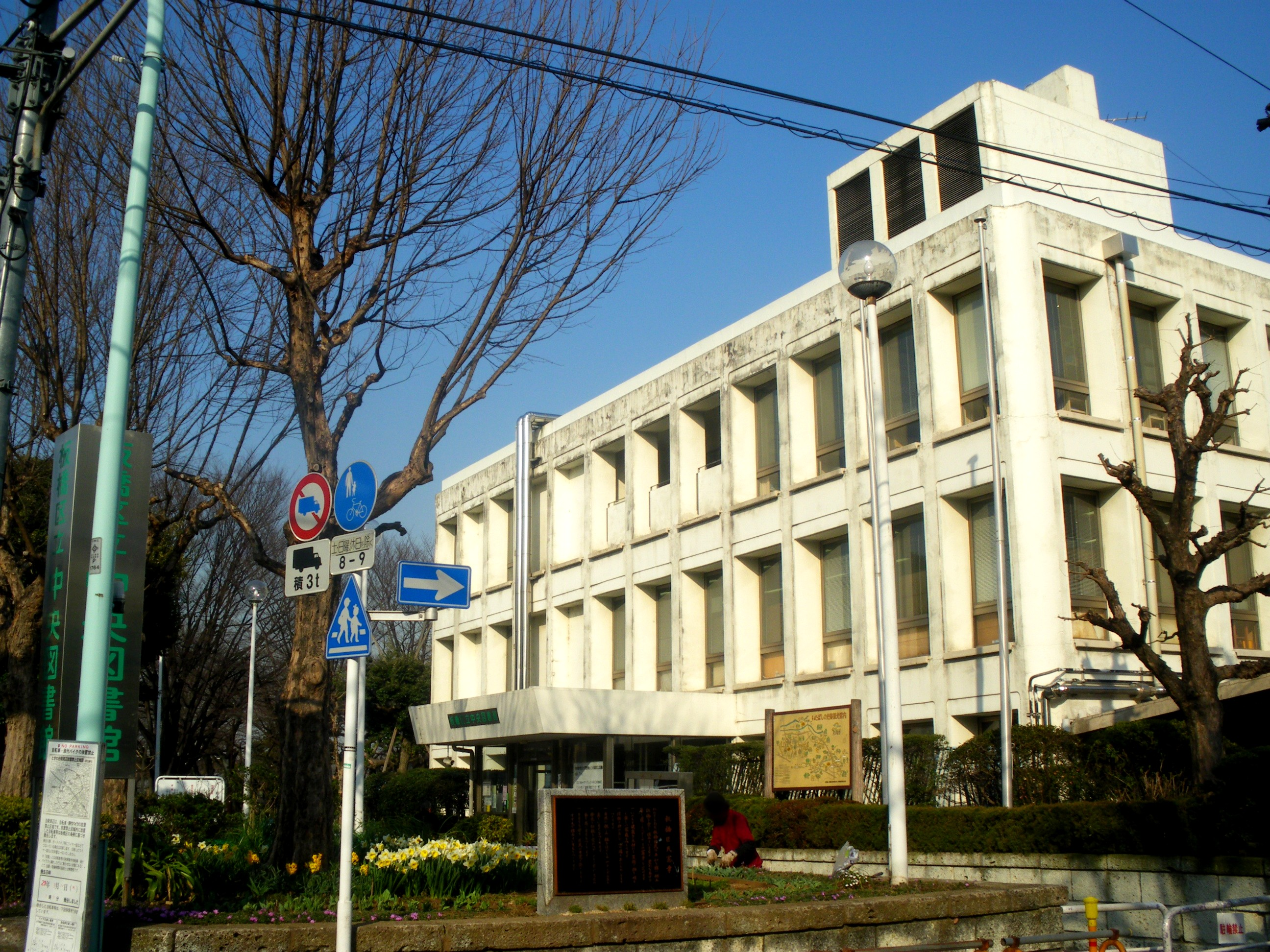 Itabashi Central Library(Tokiwadai,Itabashi,Tokyo)